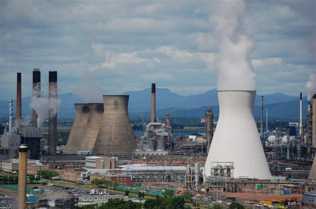 Petrochemical plant Grangemouth petrochemical plant has been refining oil here since 1924. A pipeline from the North Sea oil fields terminates here, some of the crude oil is refined here, while the surplus is transferred by pipeline to storage tanks near the Forth Rail Bridge.